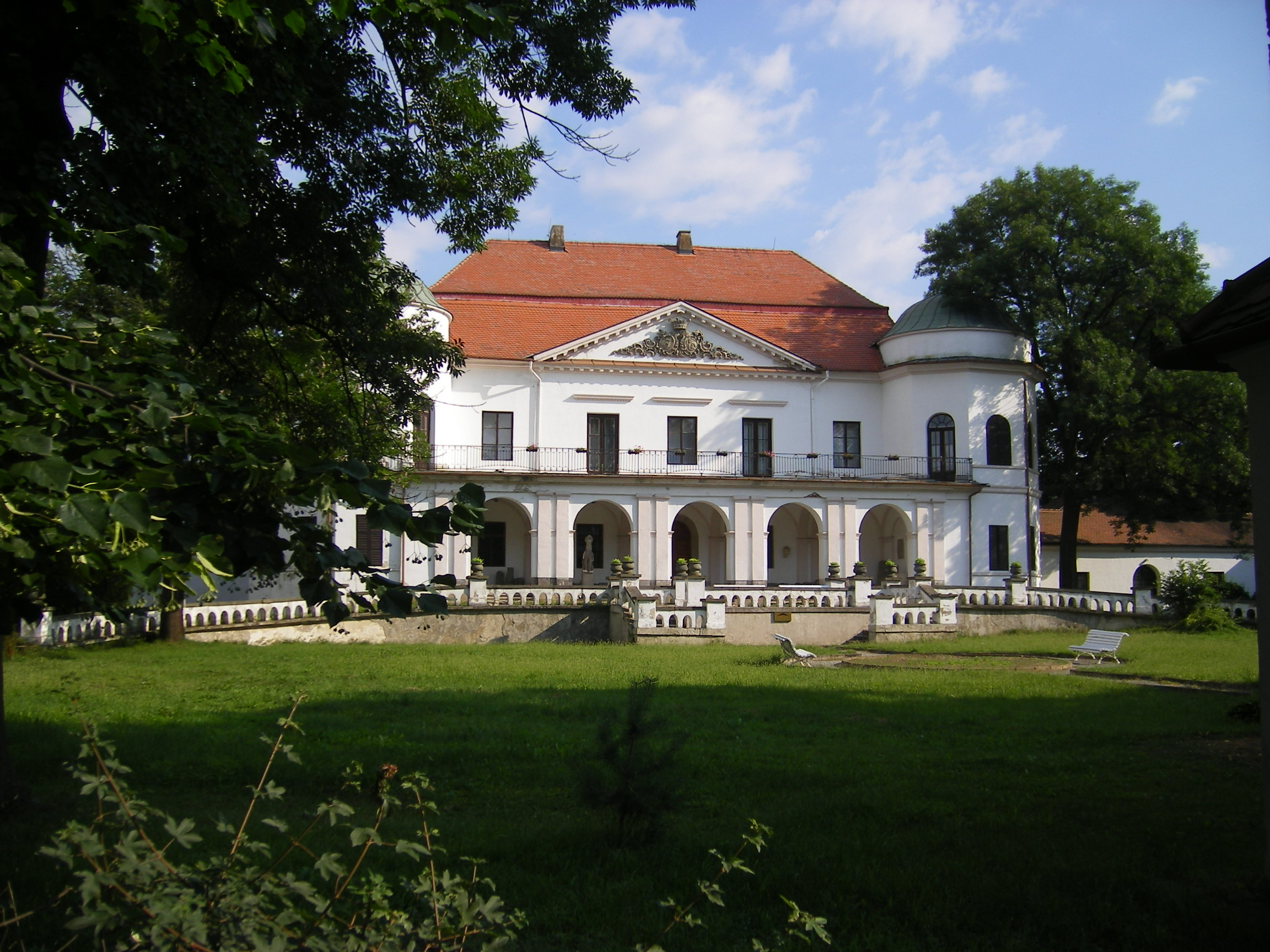 Michalovce, Sztáray castle (today Zemplín Museum)